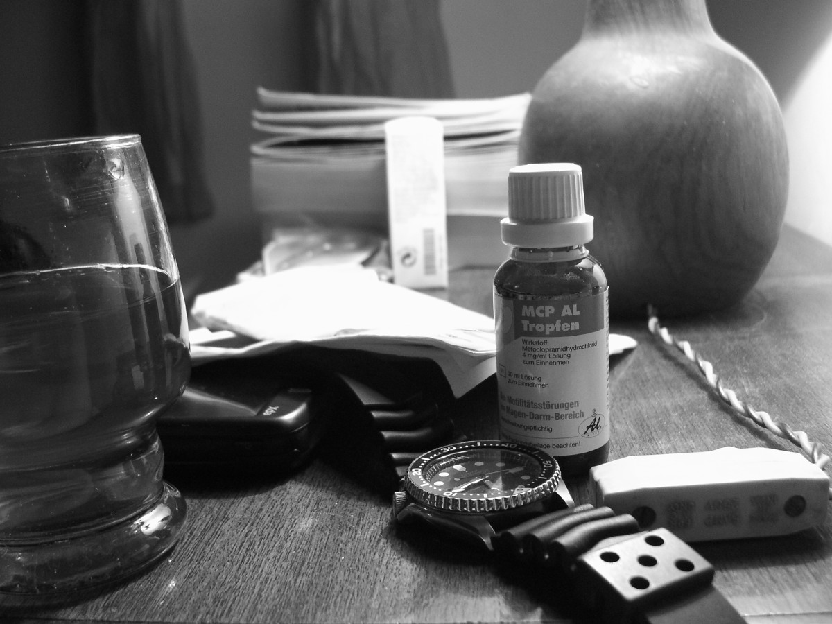 Nightstand Still life